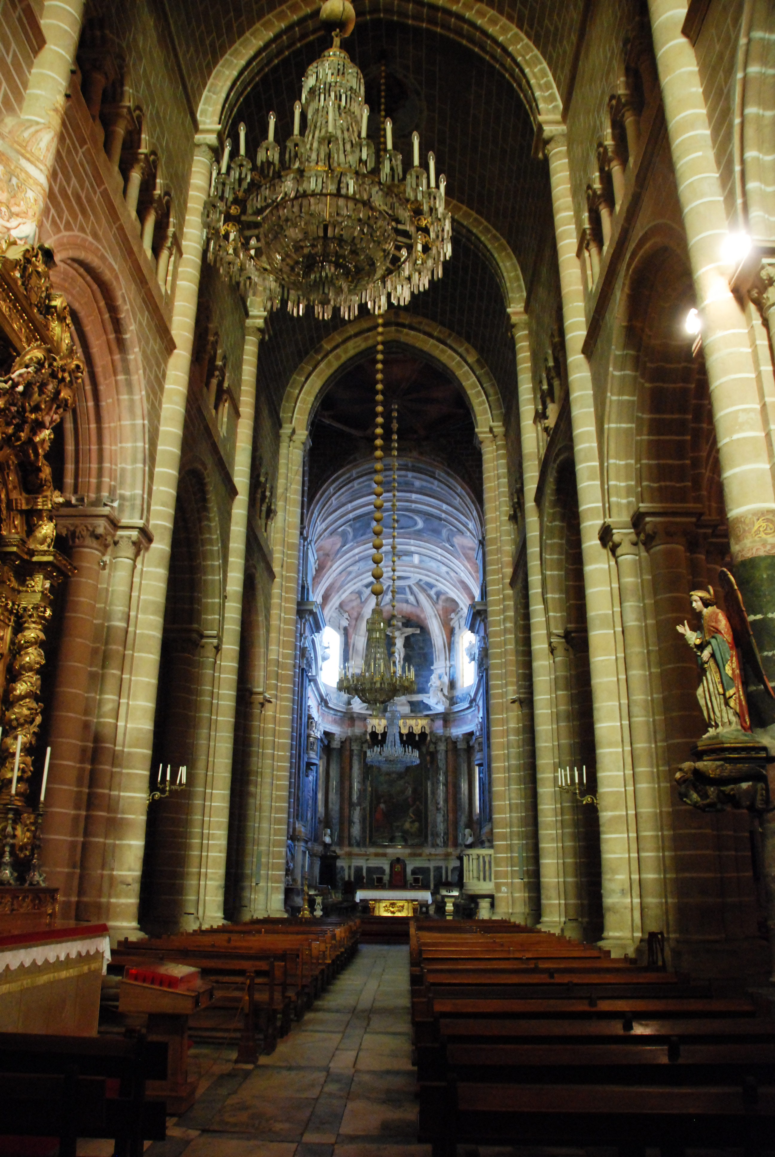 This file was uploaded for Wiki Loves Monuments in Portugal with the unique identifier 69779.